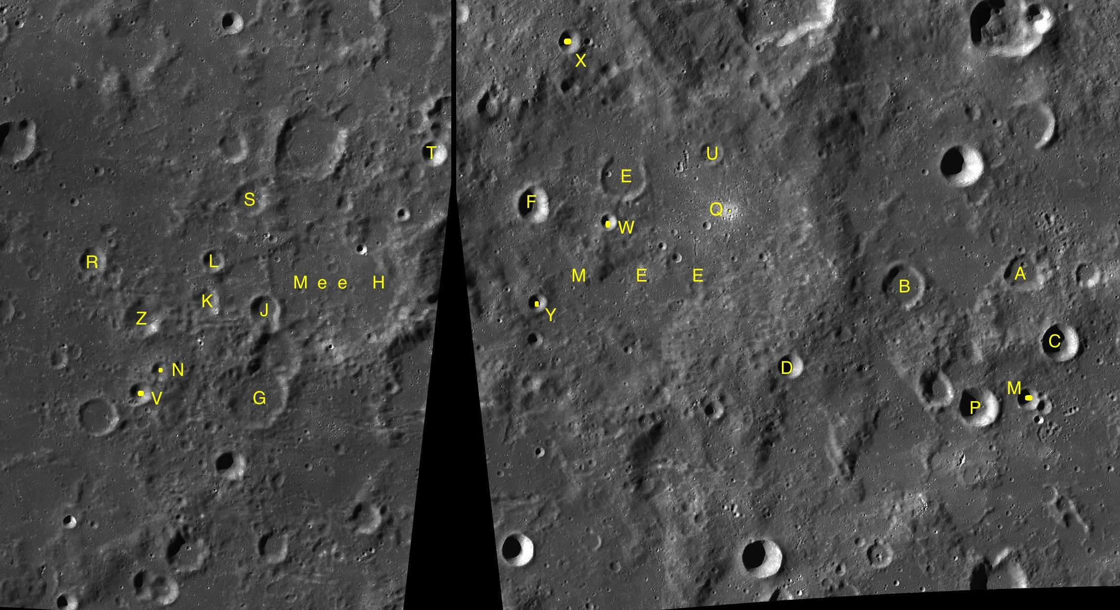 Parts of the charts LAC-110, LAC-111 used for the presentation